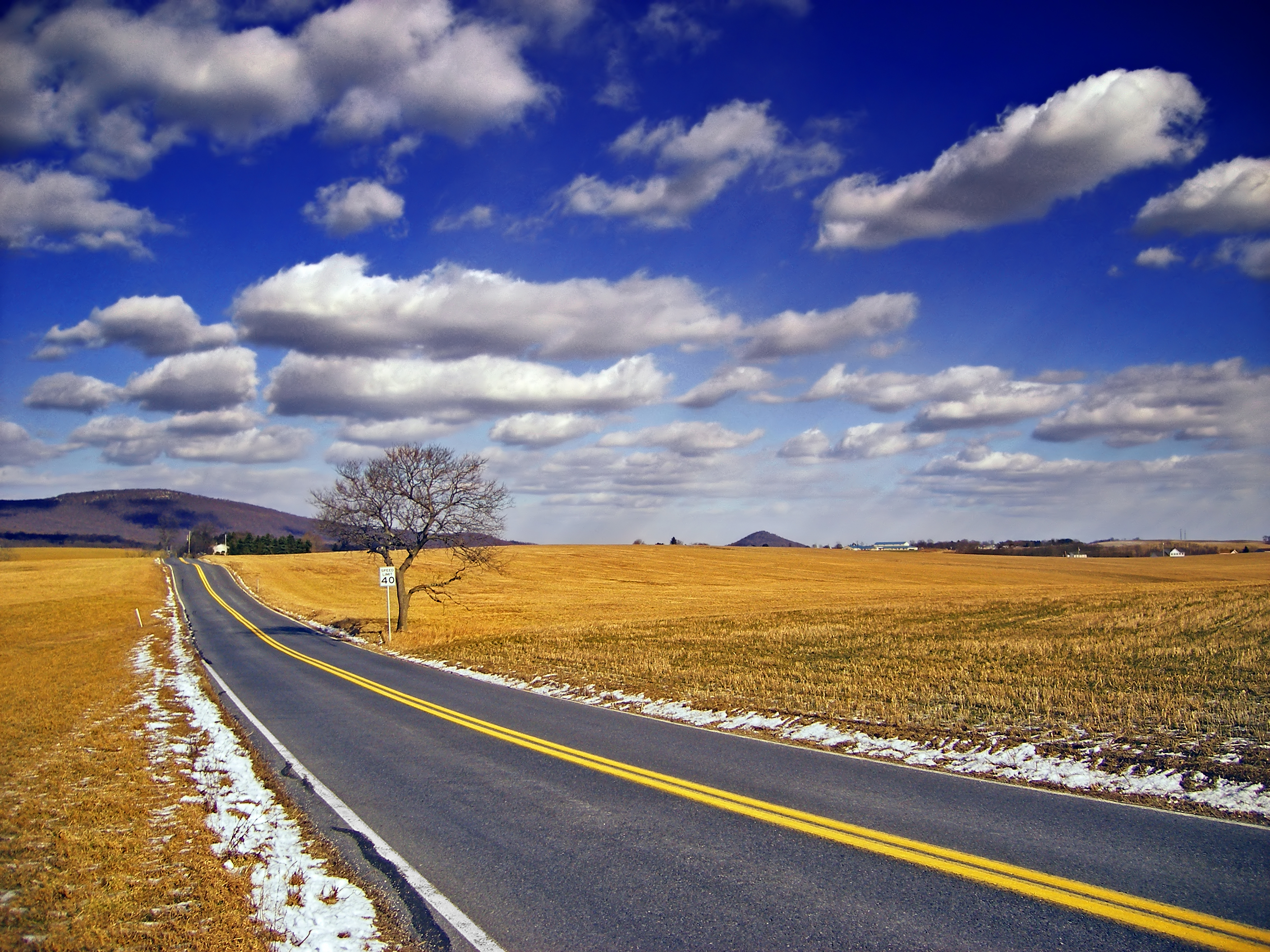 Greenwich Township, Berks County.Country Mile